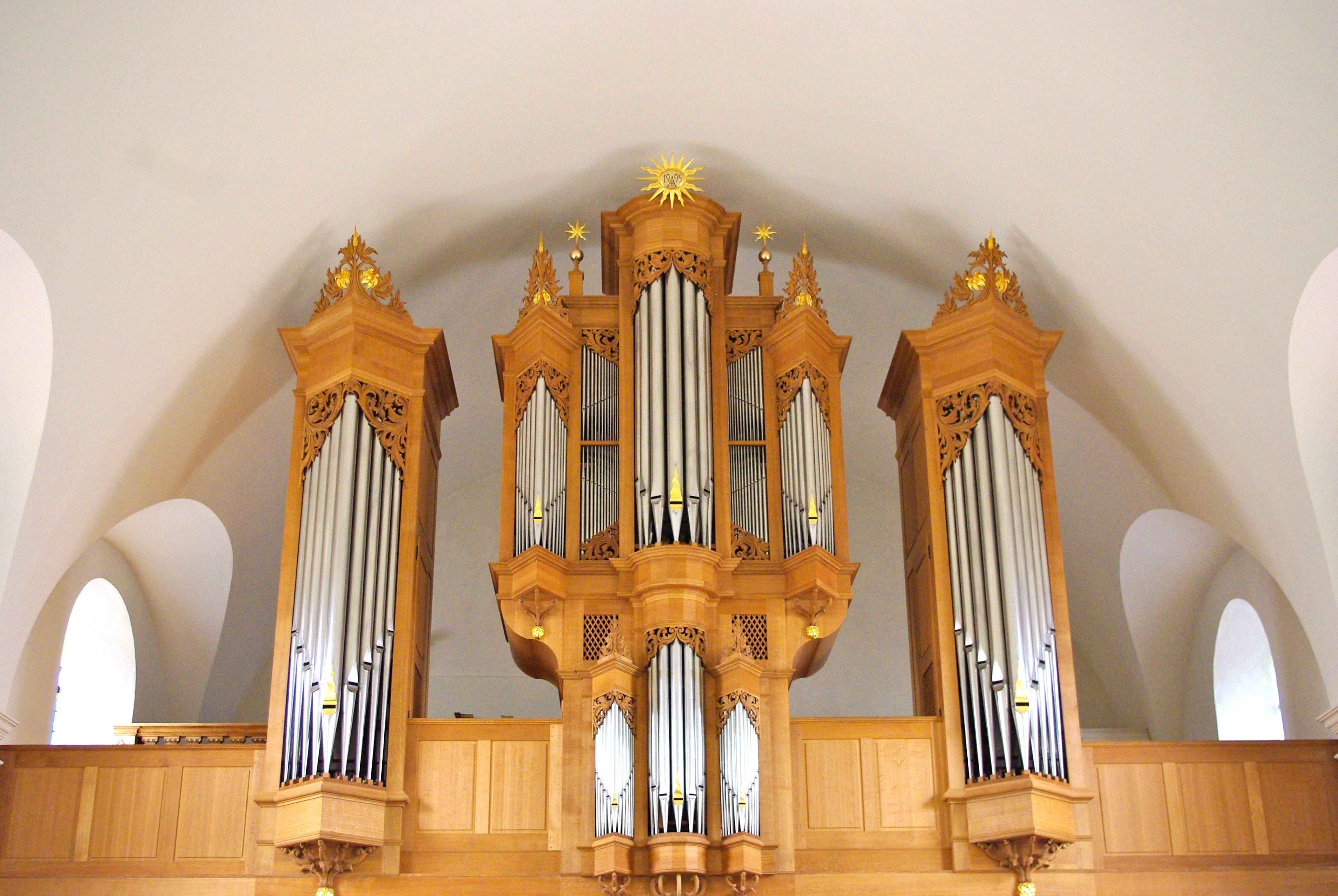 Pipe organ of the church of Saint John the Baptist, built by Bernard Aubertin en 1995